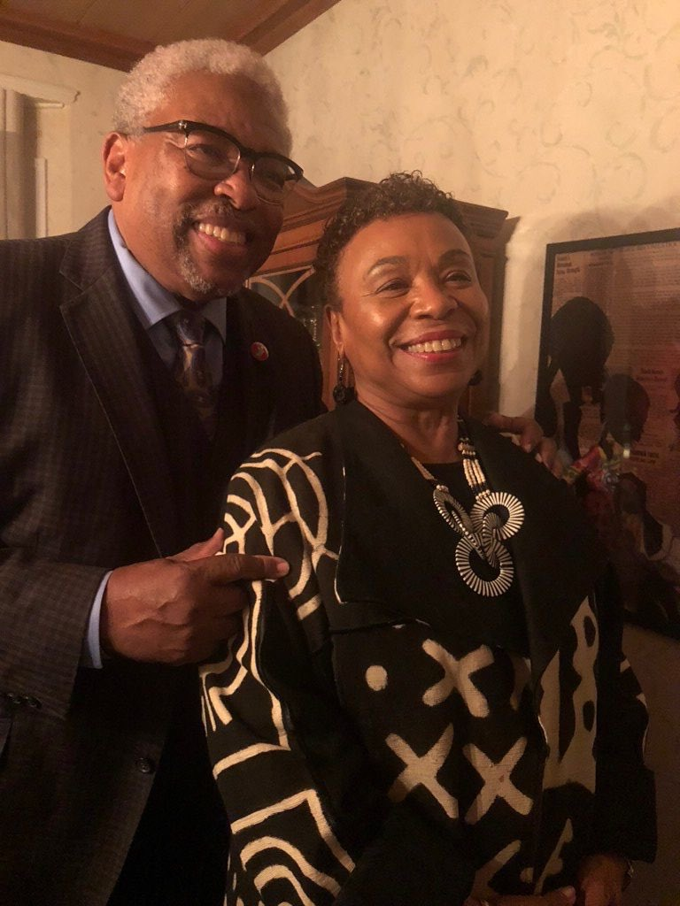 An extra special welcome and #HappyNewYear to my newest constituent – Rev. Dr. Clyde Oden Jr., who I had the honor of marrying last night! I look forward to welcoming Clyde to the East Bay community and introducing him to you as my kind and loving husband.